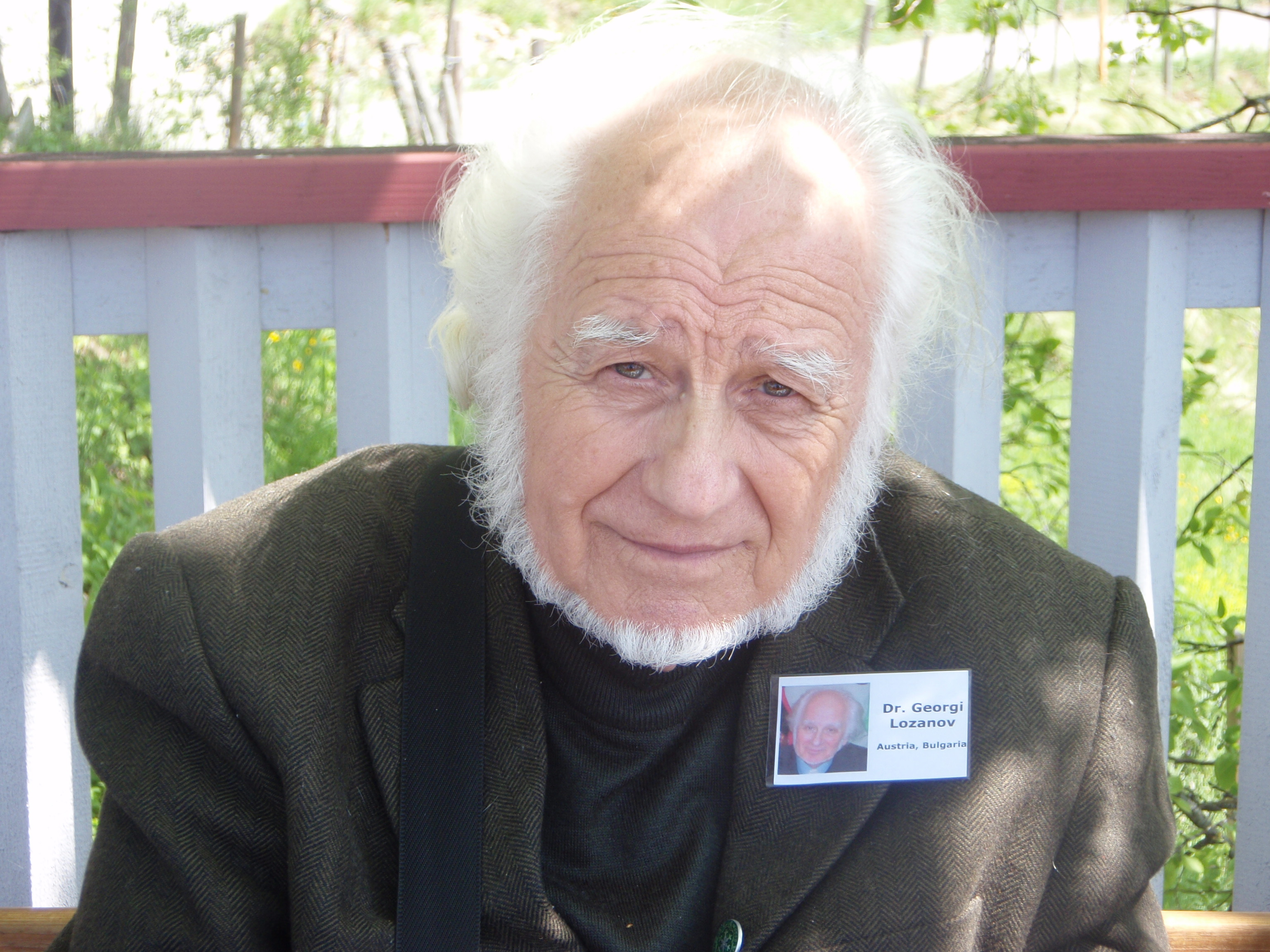 Georgi Lozanov taken at Inaugral conference of Lozanov International Trainers Association in Viktorsberg, Austria on 8th of May, 2008. Photo by Kaz Hagiwara